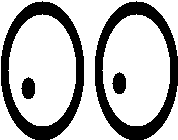 Xeyes